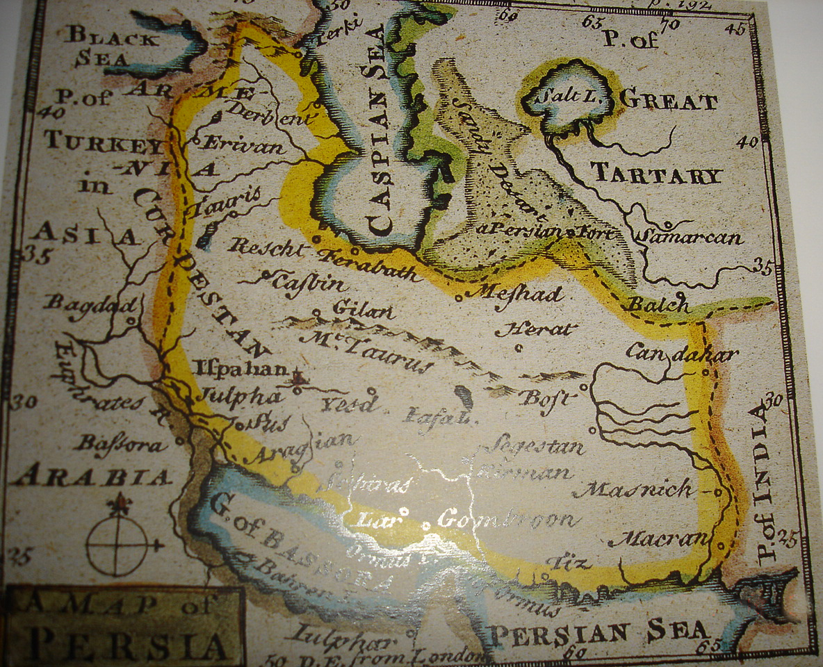 19th century British map of Persia.